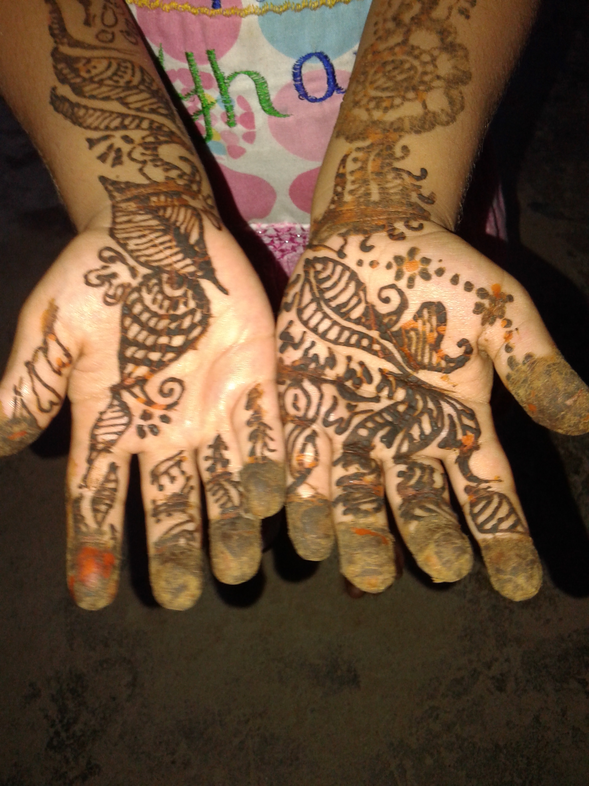 A baby girl wearing Henna(Mehndi) on the occasion of Eid This photo has been taken in the country: India